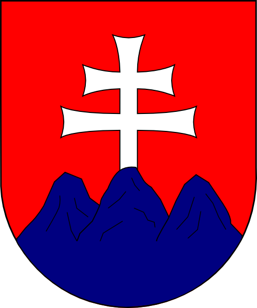 Coat of arms (shield only) of Marián Blaha, bishop of Banská Bystrica, Slovakia (1920 - 1943)